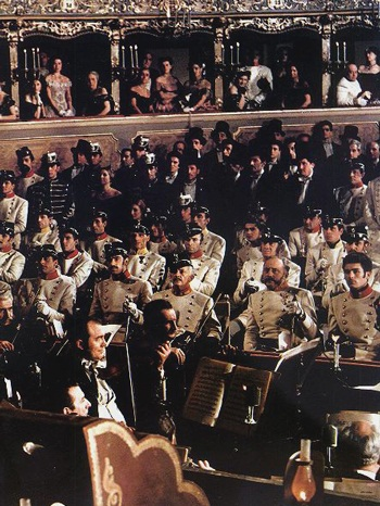 Interior of La Fenice, still from Luchino Visconti's 1954 film Senso